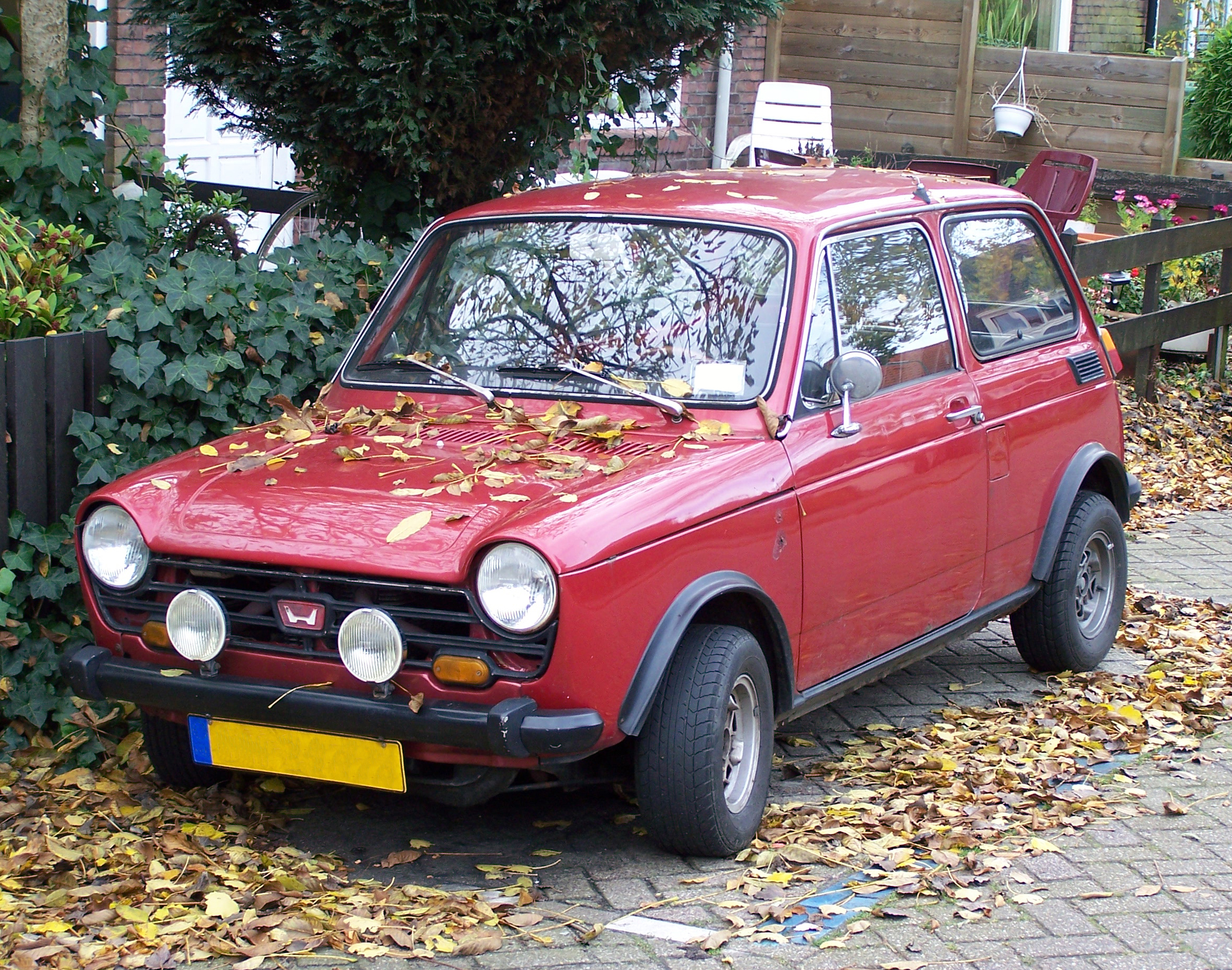 Hond N360 Touring.